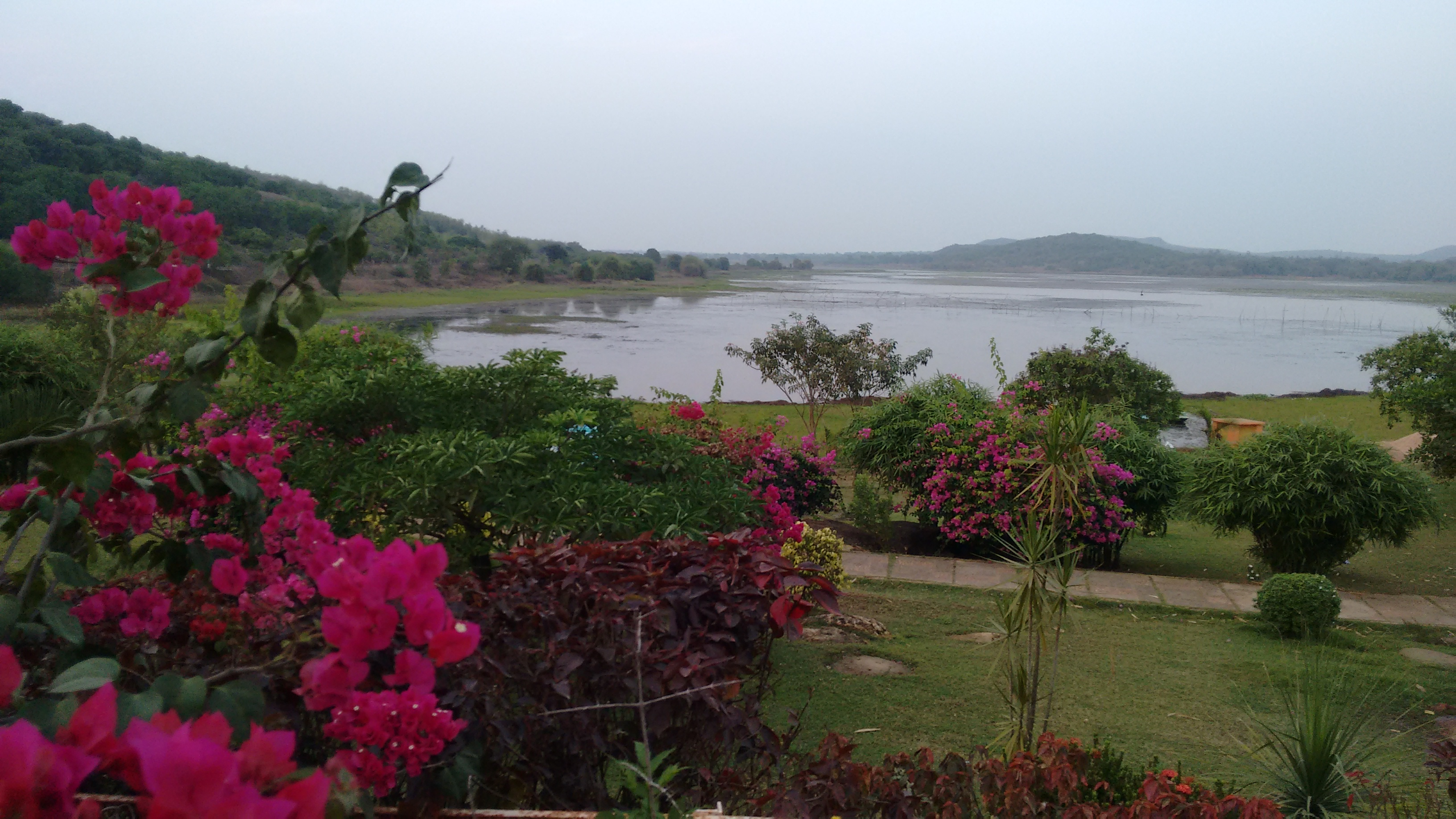 Cuttack, Odisha